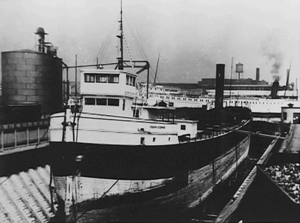 The steamer Frank O'Connor prior to her sinking